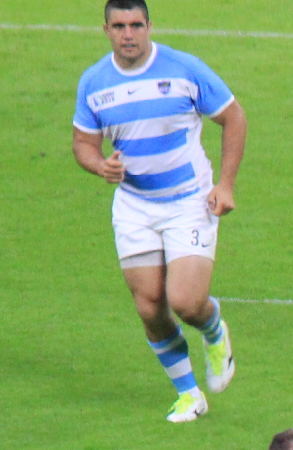 15-09 RWC New Zealand vs Argentina 069